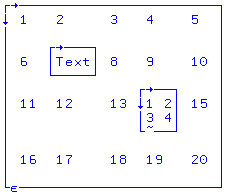 Representation of a nested array, a mixed data type in APL2